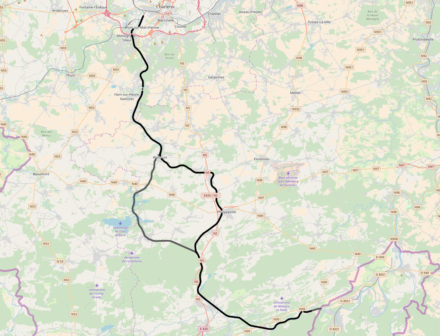 Belgian Railway Line 132, La Sambre - Treignes